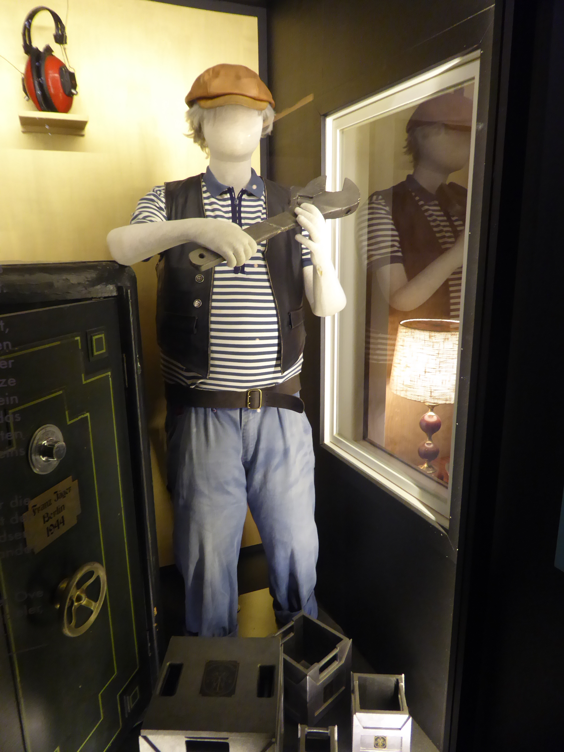 Costume of the henchman Bøffen from the Danish Olsen-banden film series in a special exhibition at Nordisk Film in Copenhagen. He was played by Ove Verner Hansen in nine of the Danish movies as well as five of the Norwegian remakes.